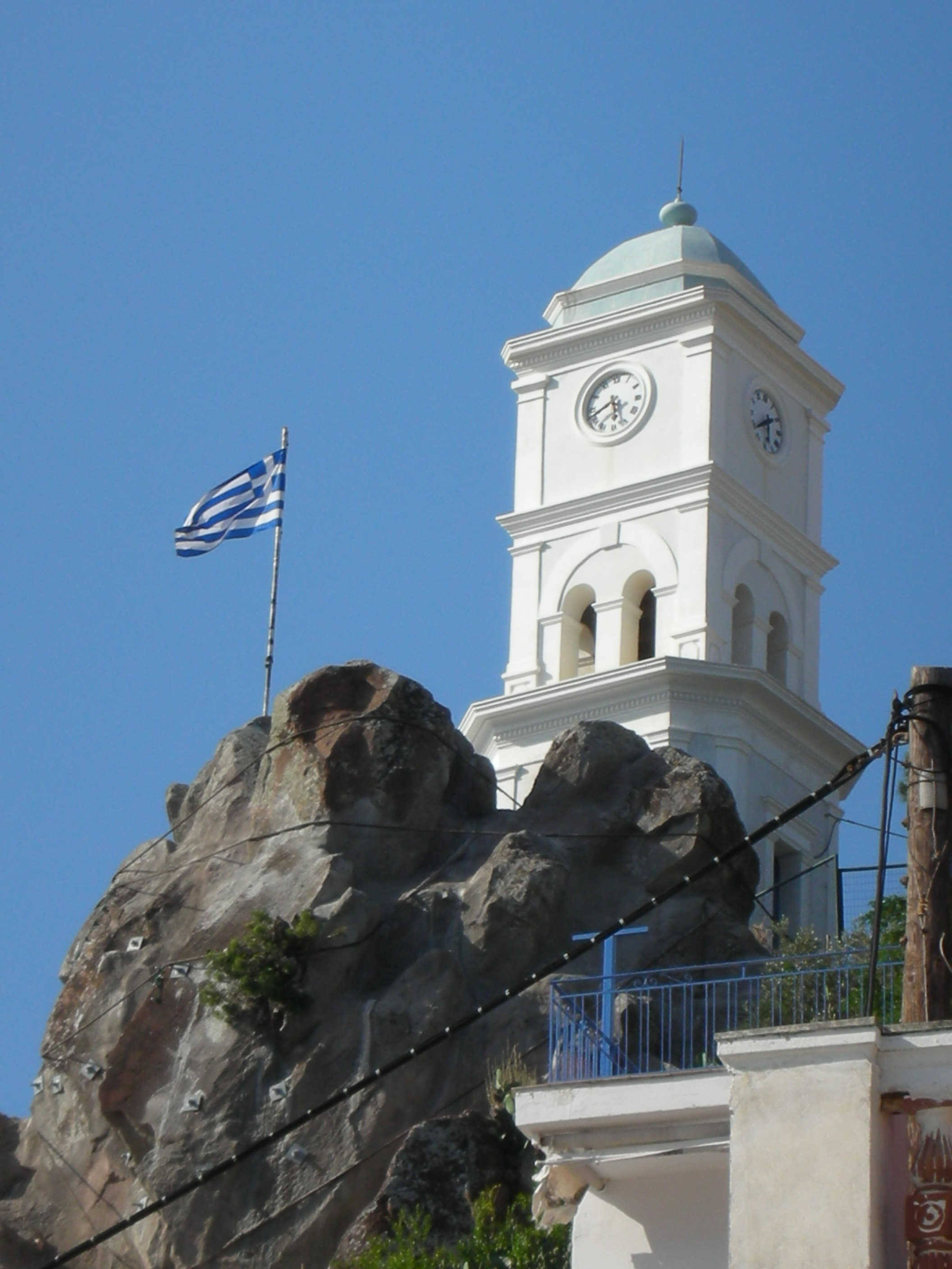 Clock tower, Poros Island, the Saronic Gulf Islands (Gulf of Aegina), Greece. The picturesque town of Poros with its beautiful neoclassical buildings is built amphitheatrically on the slopes of a hill. Its most famous landmark is a clock tower, built in 1927.